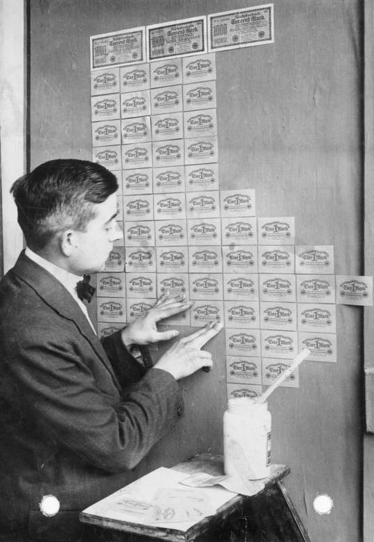 Germany, 1923: During hyperinflation, banknotes had lost so much value that they were used as wallpaper, being much cheaper than actual wallpaper.